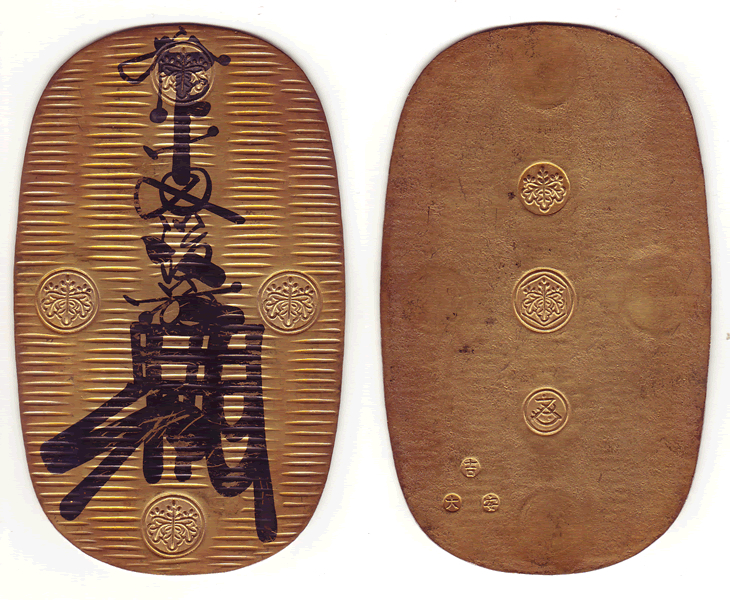 Old money of Japan, Manen oban, 万延大判金